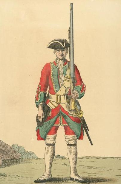 Soldier of the 11th regiment (1742)